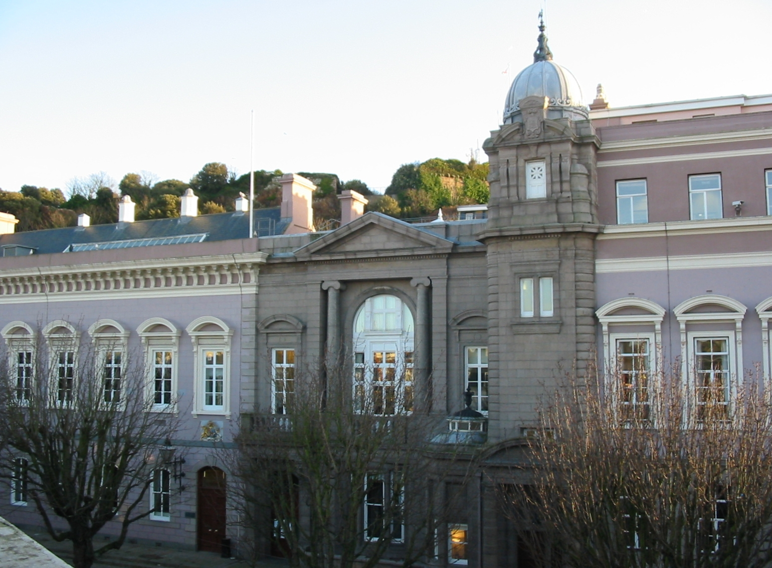 States Building